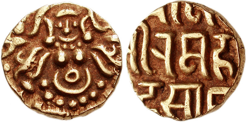 Coin of the Ghurid Sultan Mu'izz al-Din Muhammad at Delhi in India.